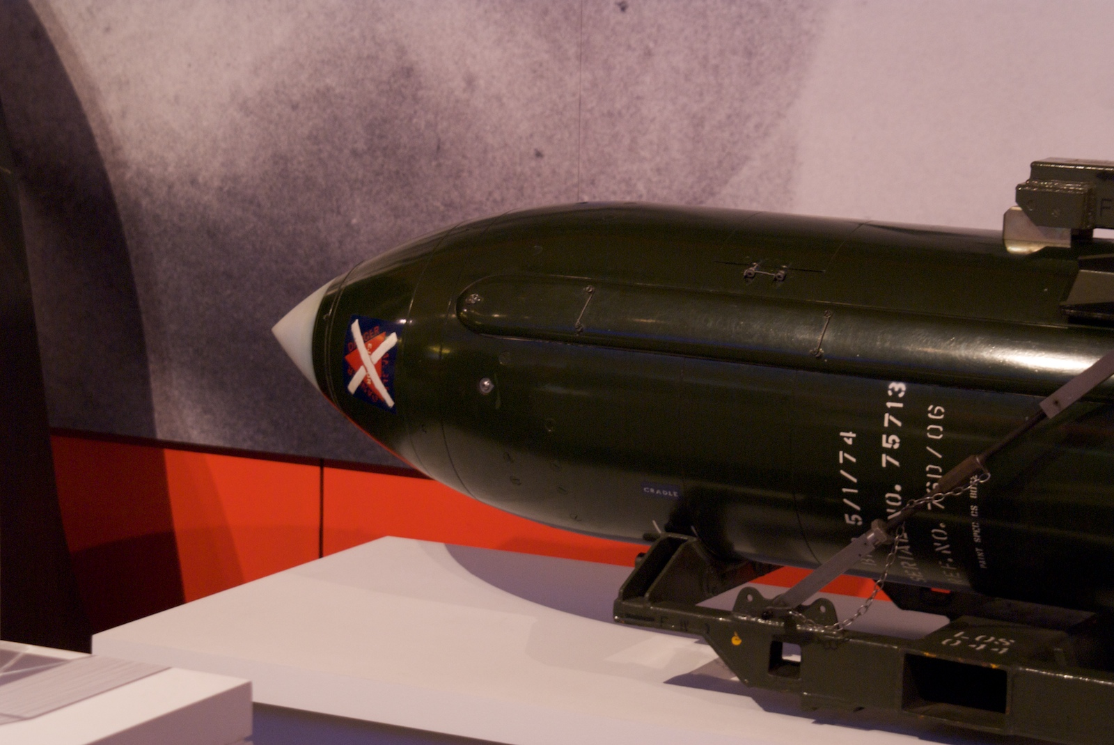 British Nuclear Bomb